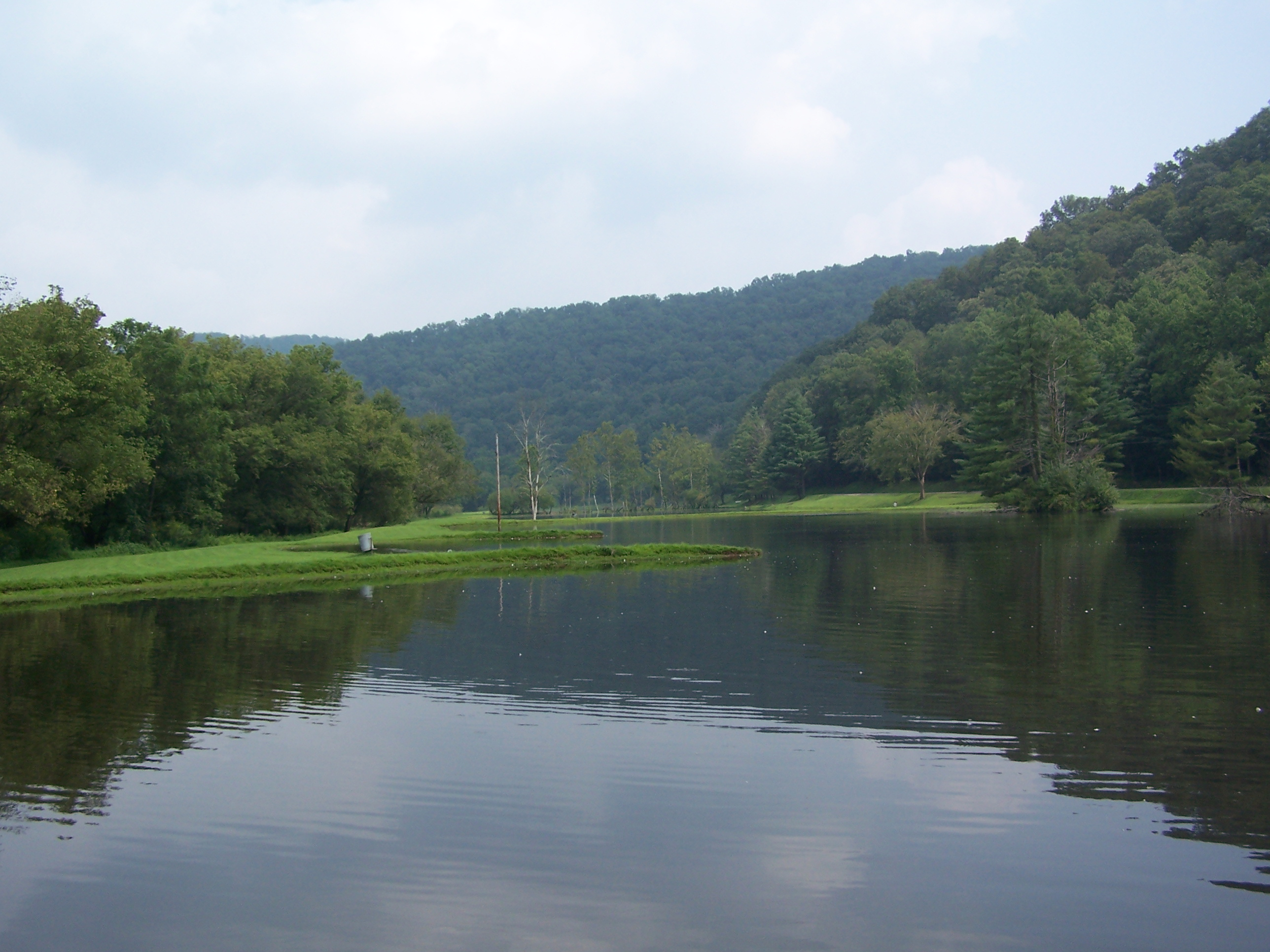 Lakes at Cedar Creek State Park. Photo taken on August 28, en:2005 by Brian M. Powell.